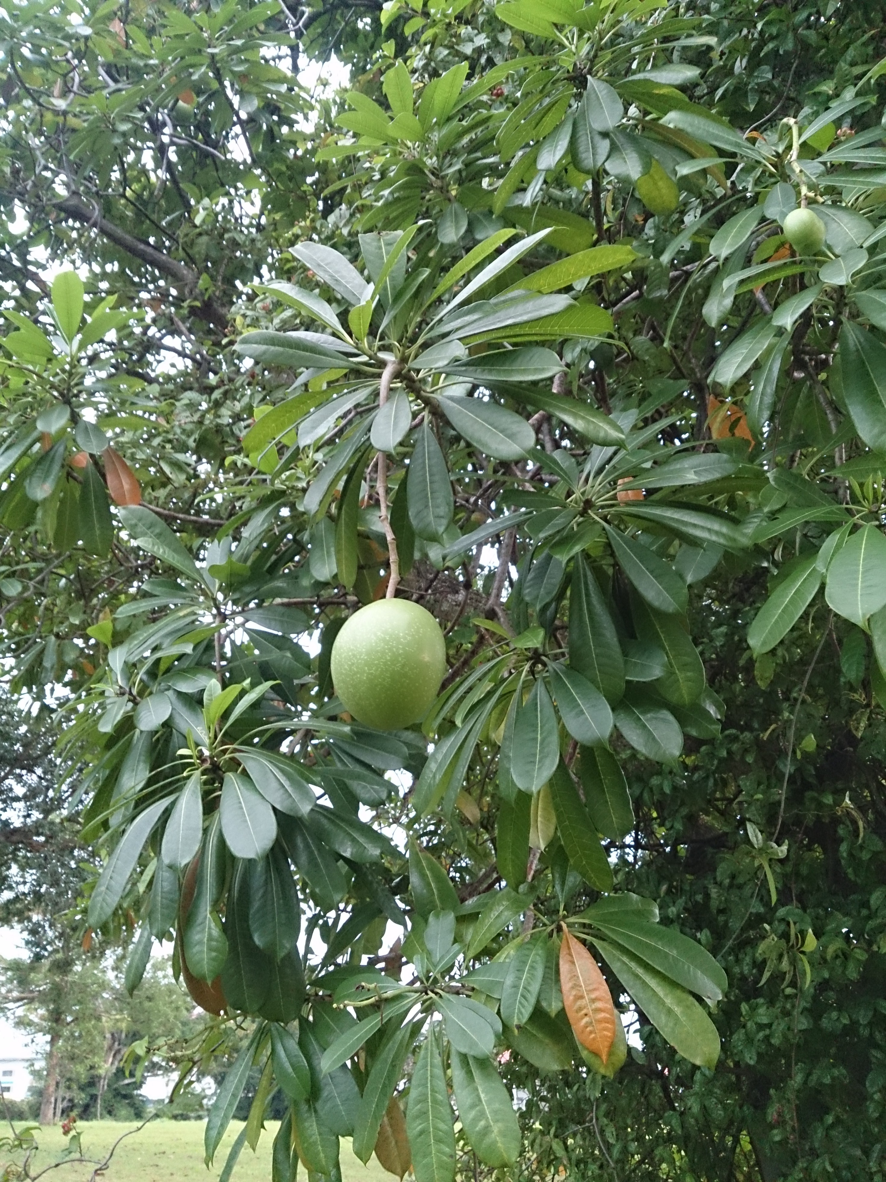 Cerbera odollam. showing poisonous fruit on tree